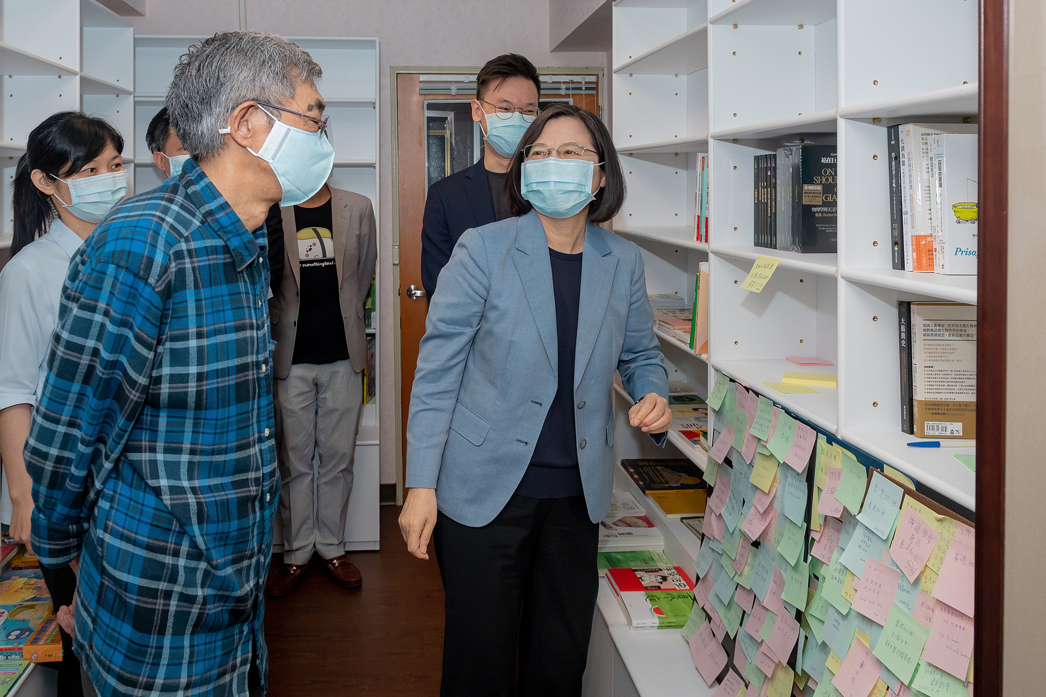 Official Photo by Makoto Lin / Office of the President